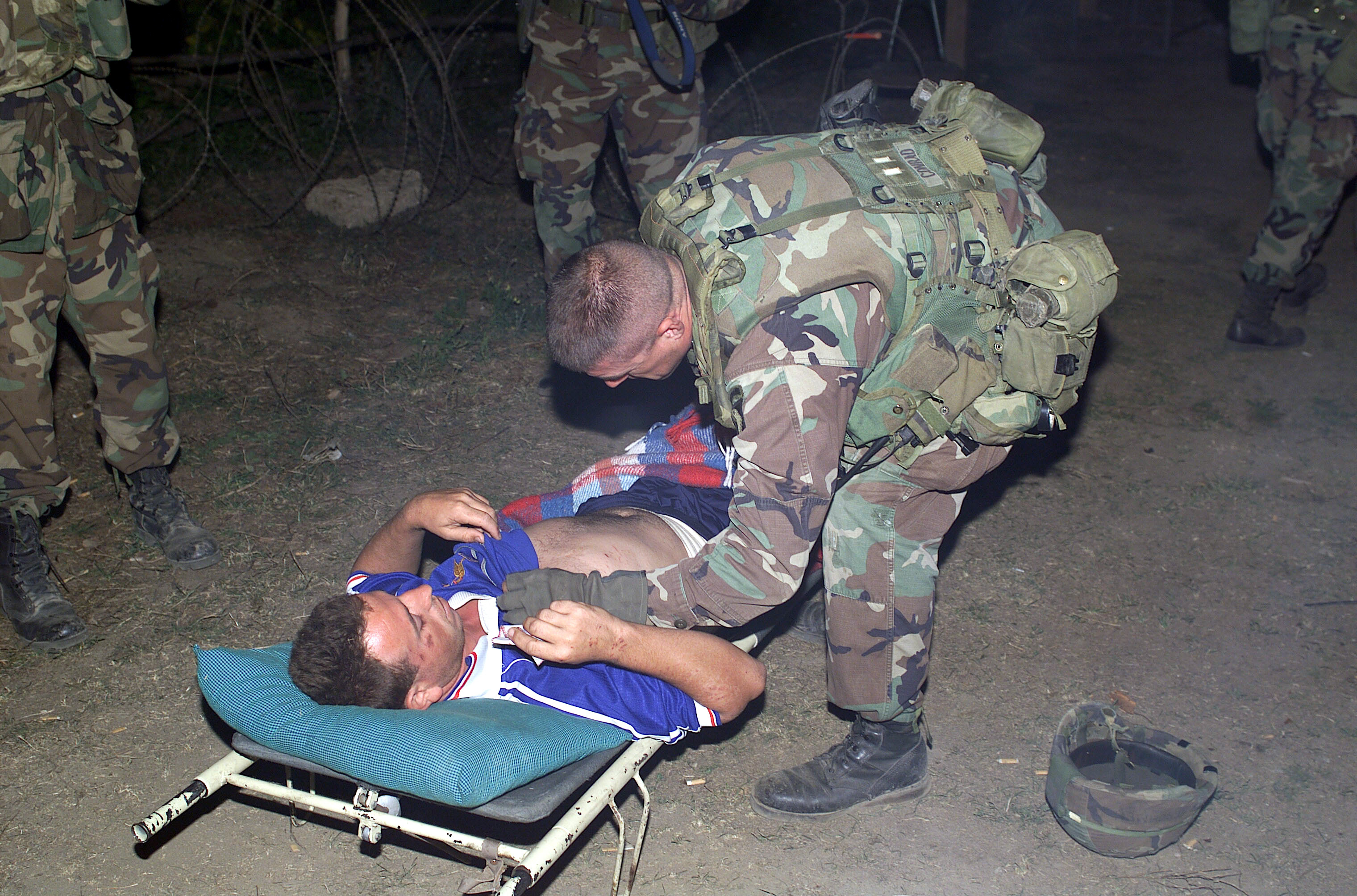 A United States Army (USA) Task Force Falcon (TFF) soldier checks an ethnic Albanian rebel of the National Liberation Army (NLA) for any hidden contrabands, during Operation JOINT GUARDIAN II: 08/27/2001